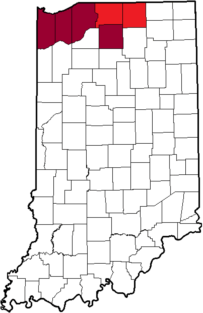 NIAC in Indiana. Current Areas in red, Former areas in Maroon